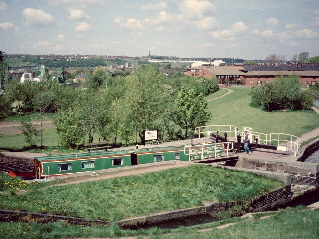 Etruria A very rural looking scene in the heart of what was once heavily industrialised Potteries. This is the staircase lock at the start of the Caldon canal.